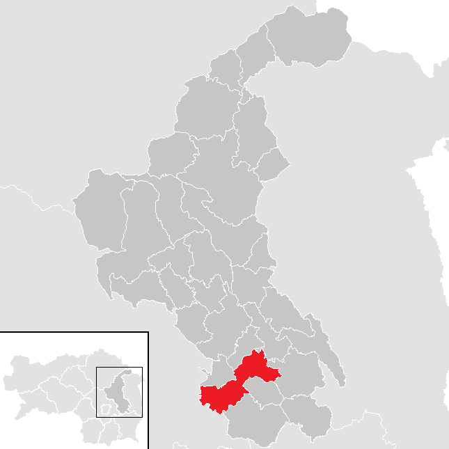 district Weiz